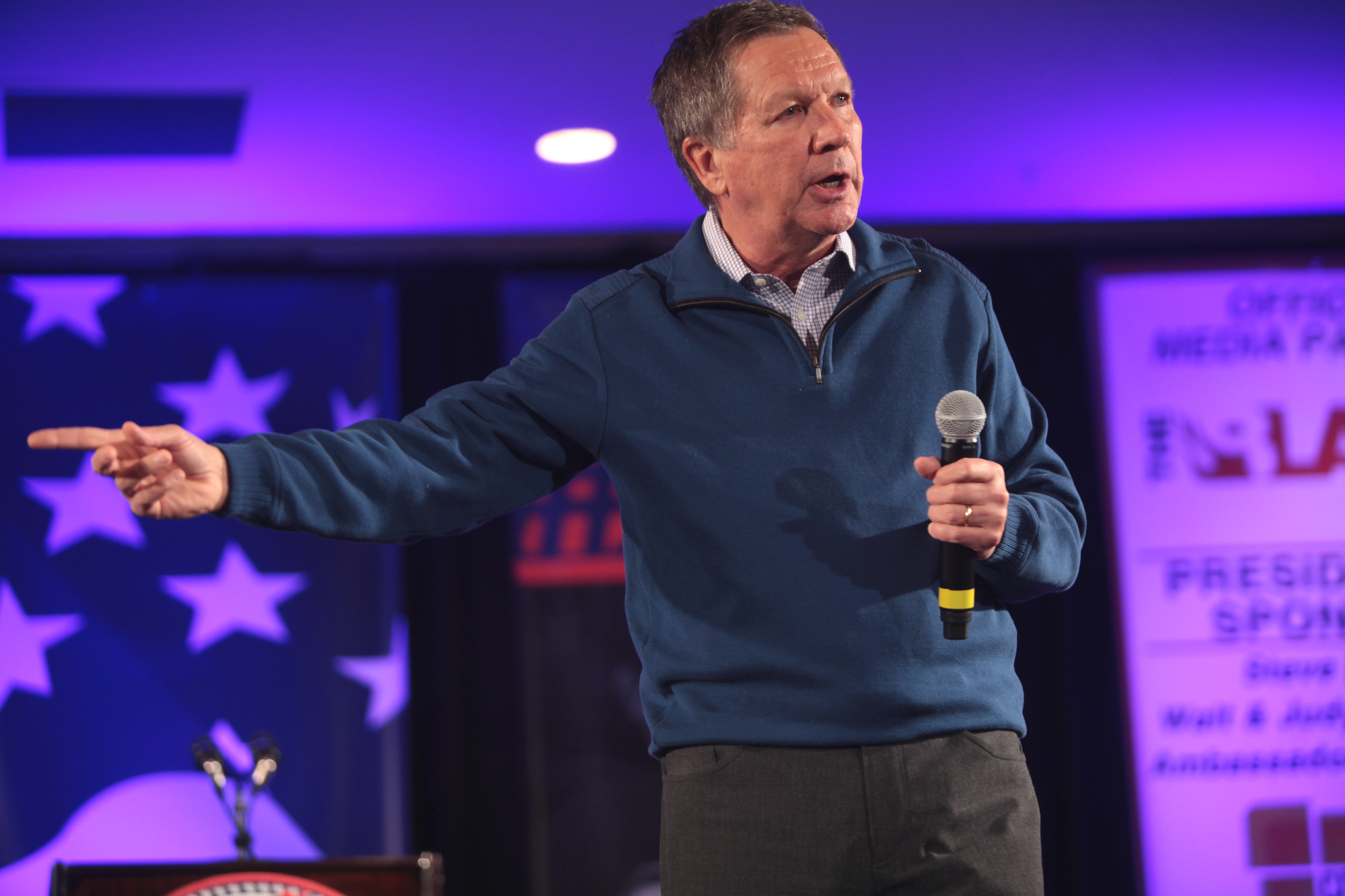 John Kasich speaking in Nashua, New Hampshire.